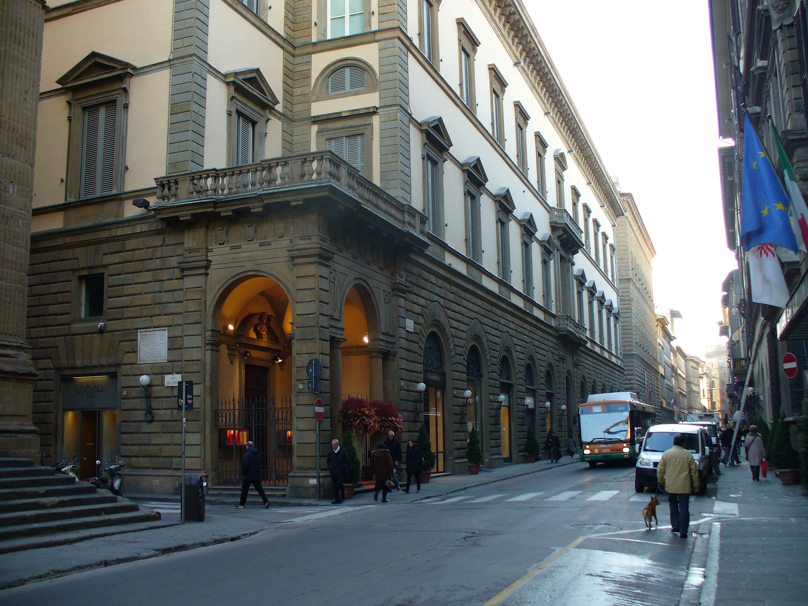 Via de' Tornabuoni